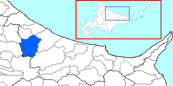 The location of Takinoue in Abashiri Subprefecture, Hokkaido Prefecture, Japan.